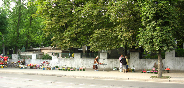 Photo of Yanivsky cemetery in Lviv, Ukraine.